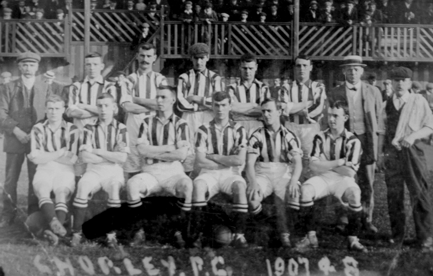 The Chorley Football Club team in 1907-08.